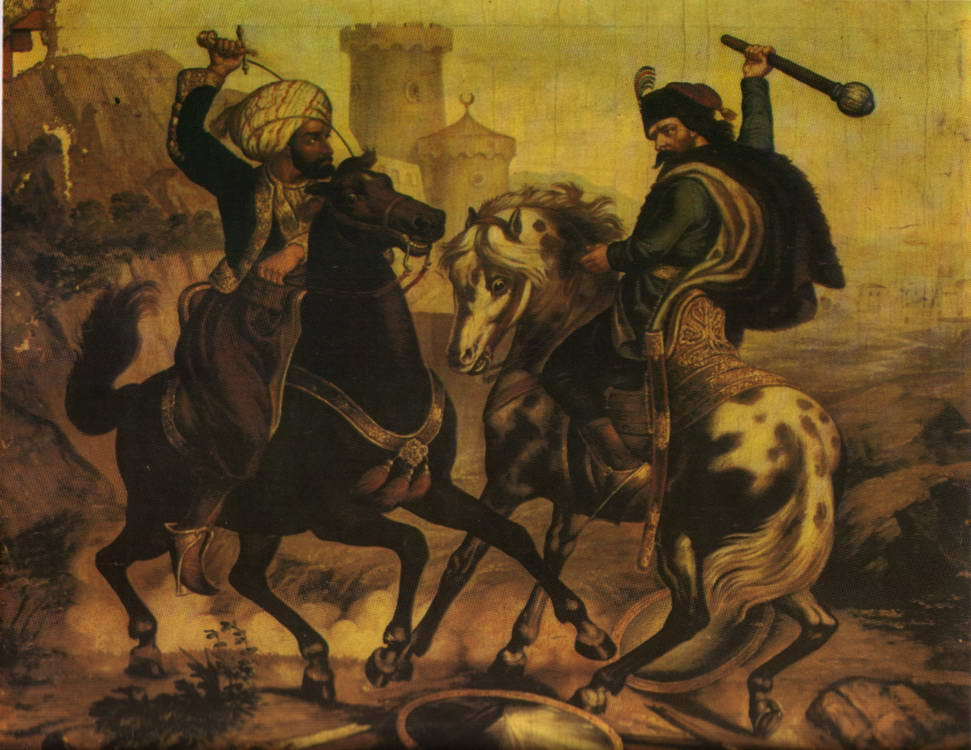 Prince Marko and Musa the Outlaw, 1900 painting by Vladislav Titelbah, the Narodni muzej Museum in Kikinda, Serbia.